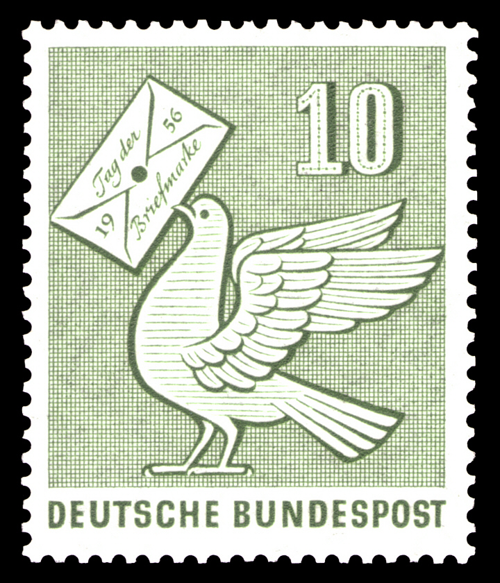 Stamp day